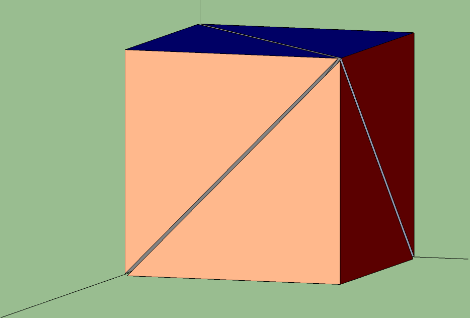 A cube divided in 3 equivalent pyramids